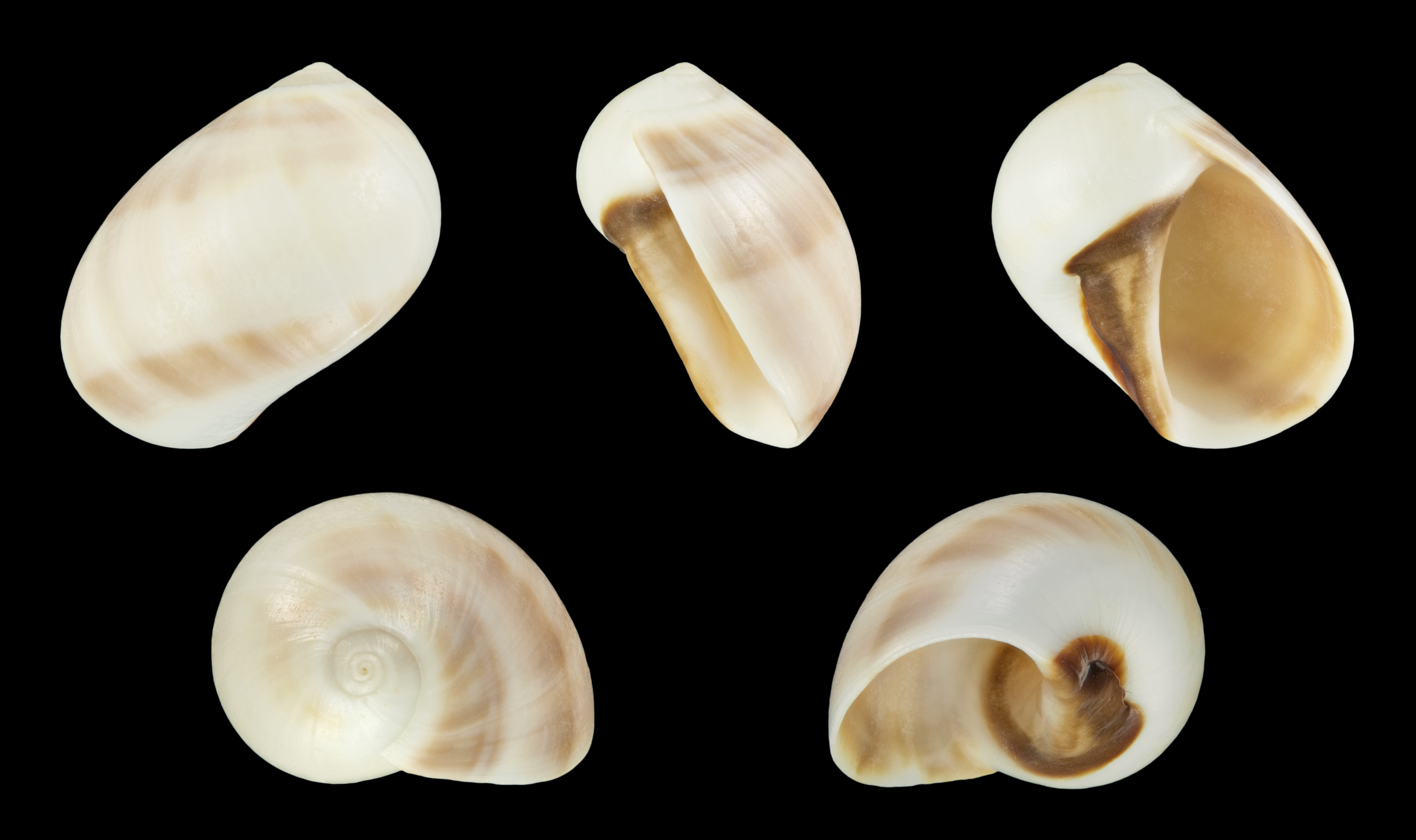 Mammilla melanostoma (Gmelin, 1791), Black-mouth Moon Snail; Height 1.9 cm; Originating from the Gulf of Aqaba, Egypt; Shell of own collection, therefore not geocoded.